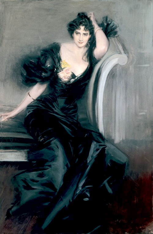 Lady Colin Campbell (Gertrude Elizabeth Blood) (1857-1911)